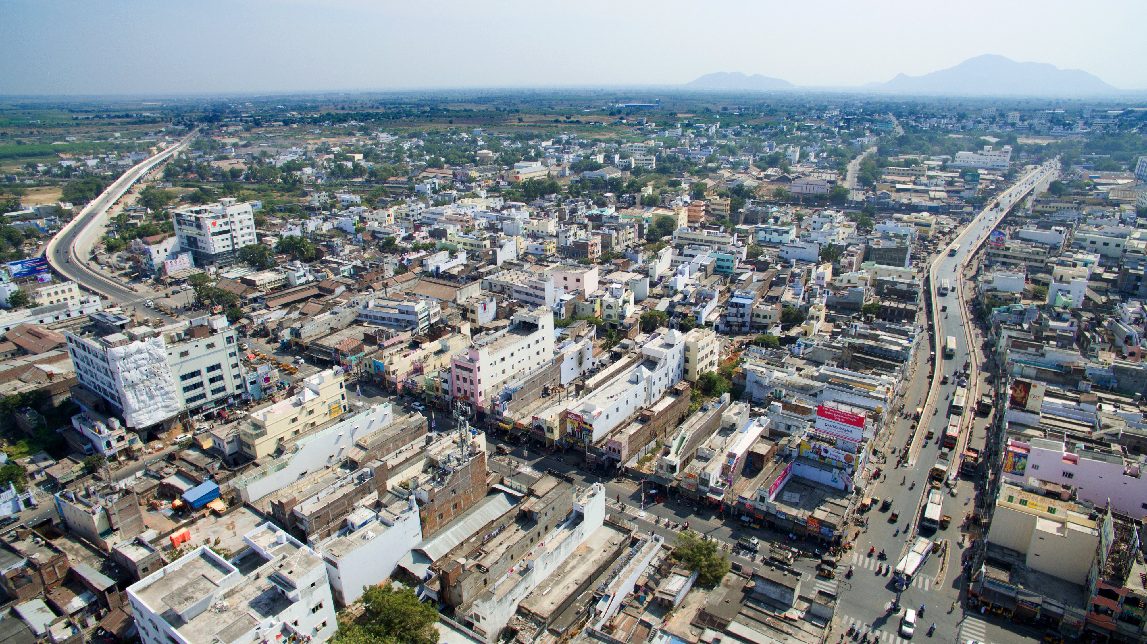 Town by aerial view at Mallamma Center in Narasaraopeta town